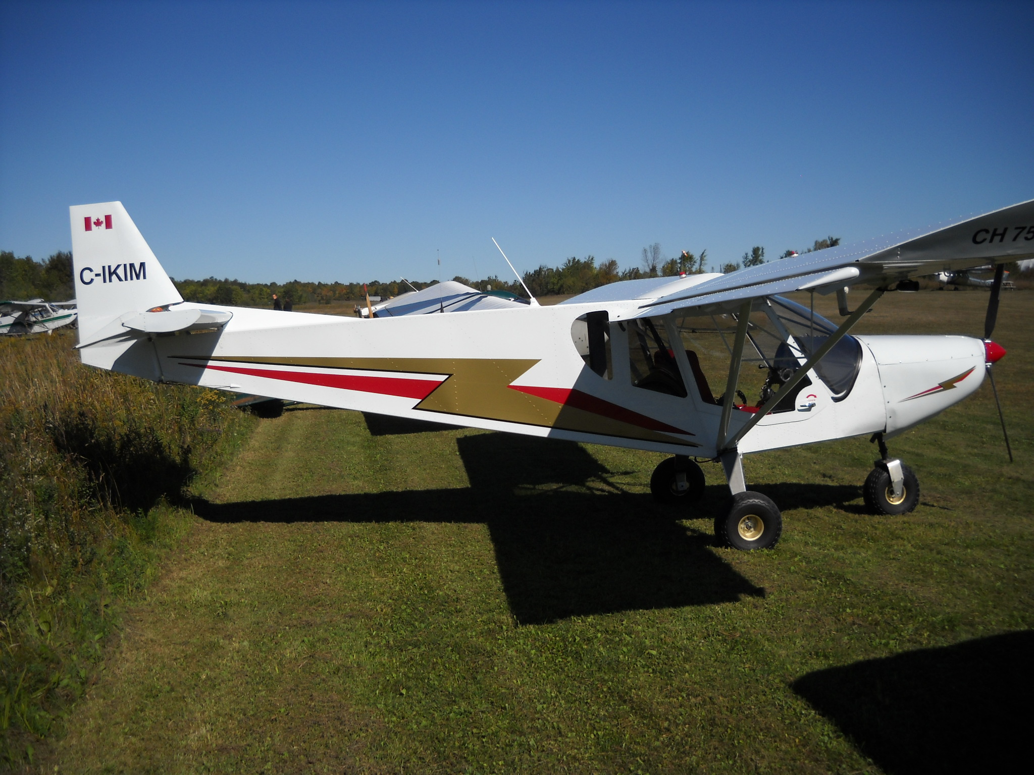 Zenair STOL CH750 at the Carleton Place, Ontario, Canada Fly-in